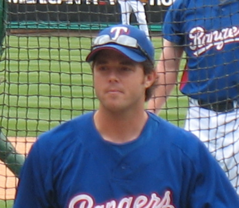 Frank Catalanotto during batting practice at Rangers Ballpark in Arlington on Apr 8, 2008